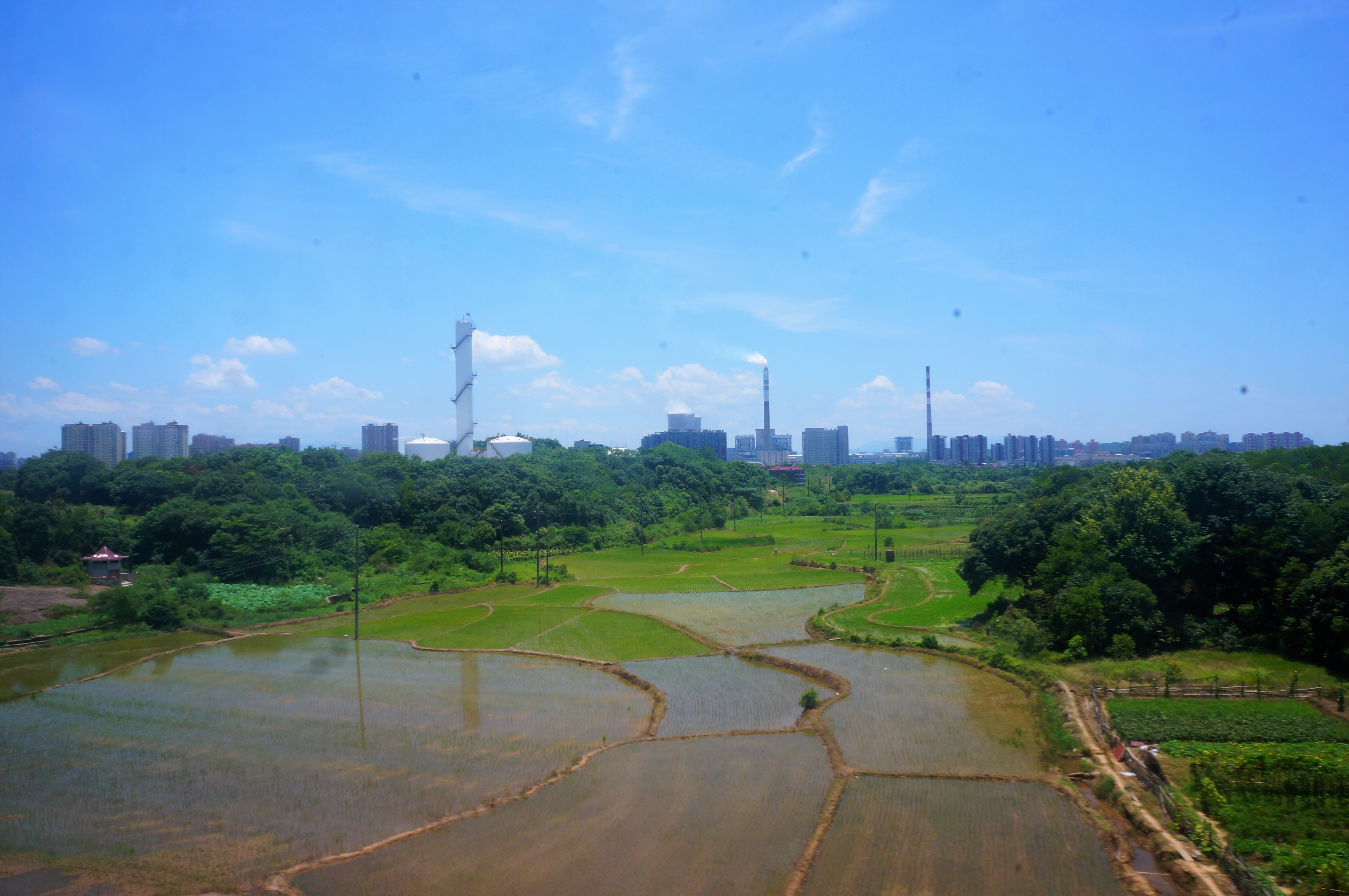 201806 Guixi Overview